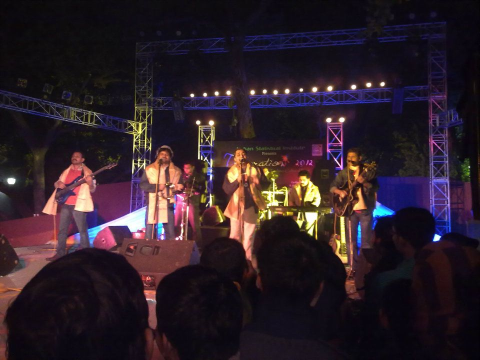 chandrabindoo at isi